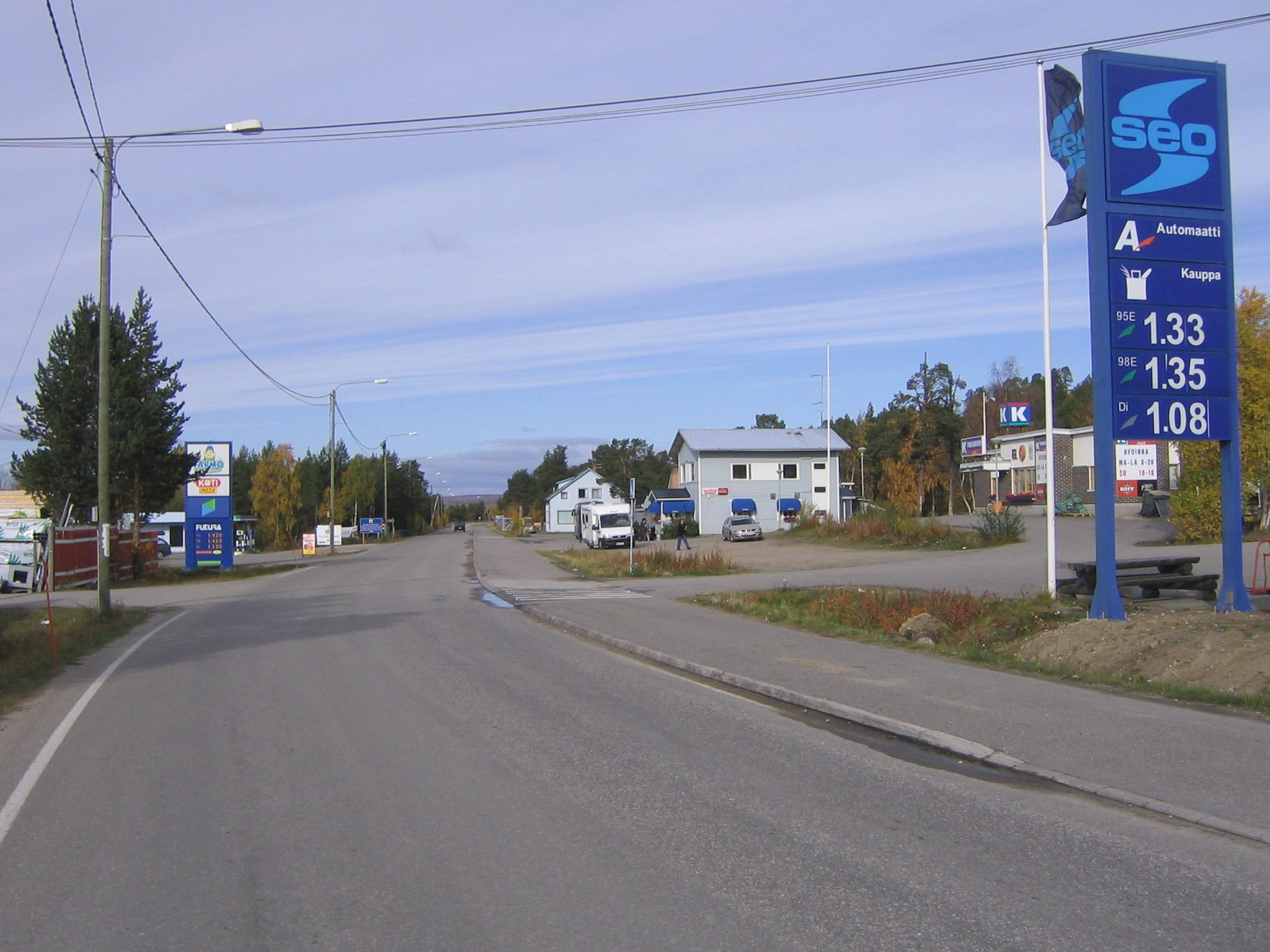 Main street (regional road 970) of Karigasniemi village in Utsjoki municipality, Finland.